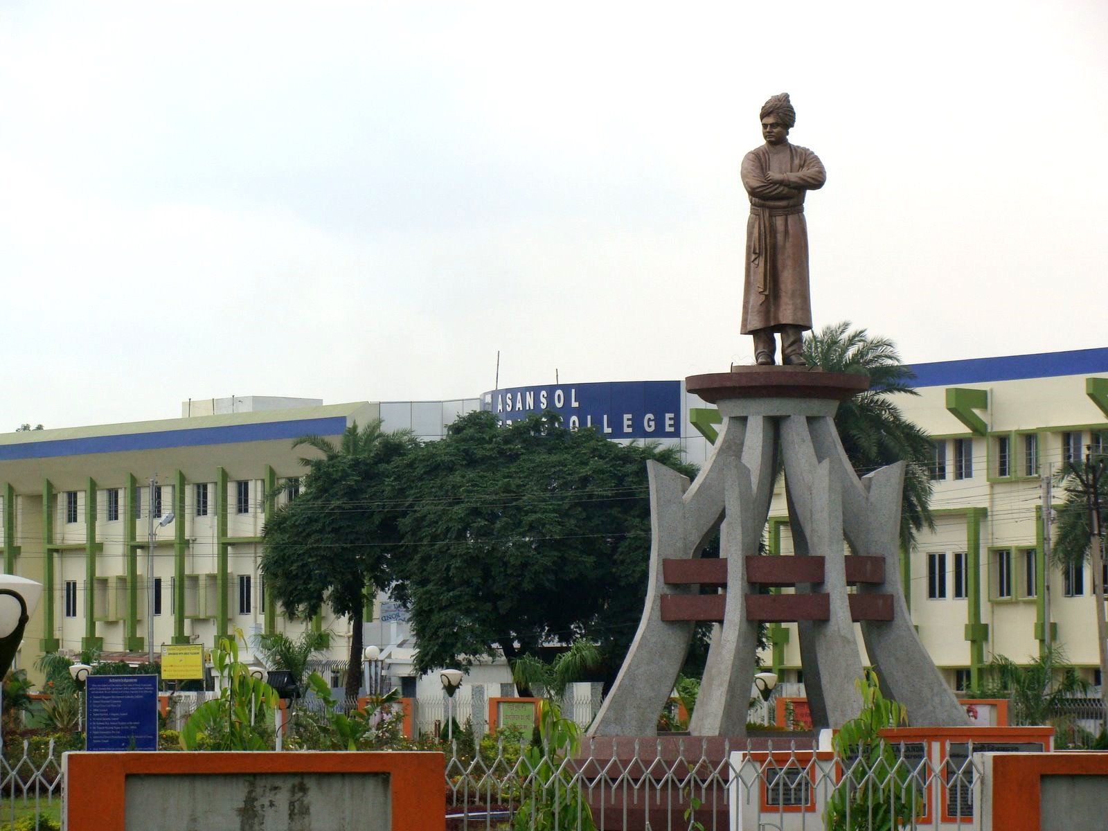 Swami Vivekananda Statue Asansol, West Bengal, India.